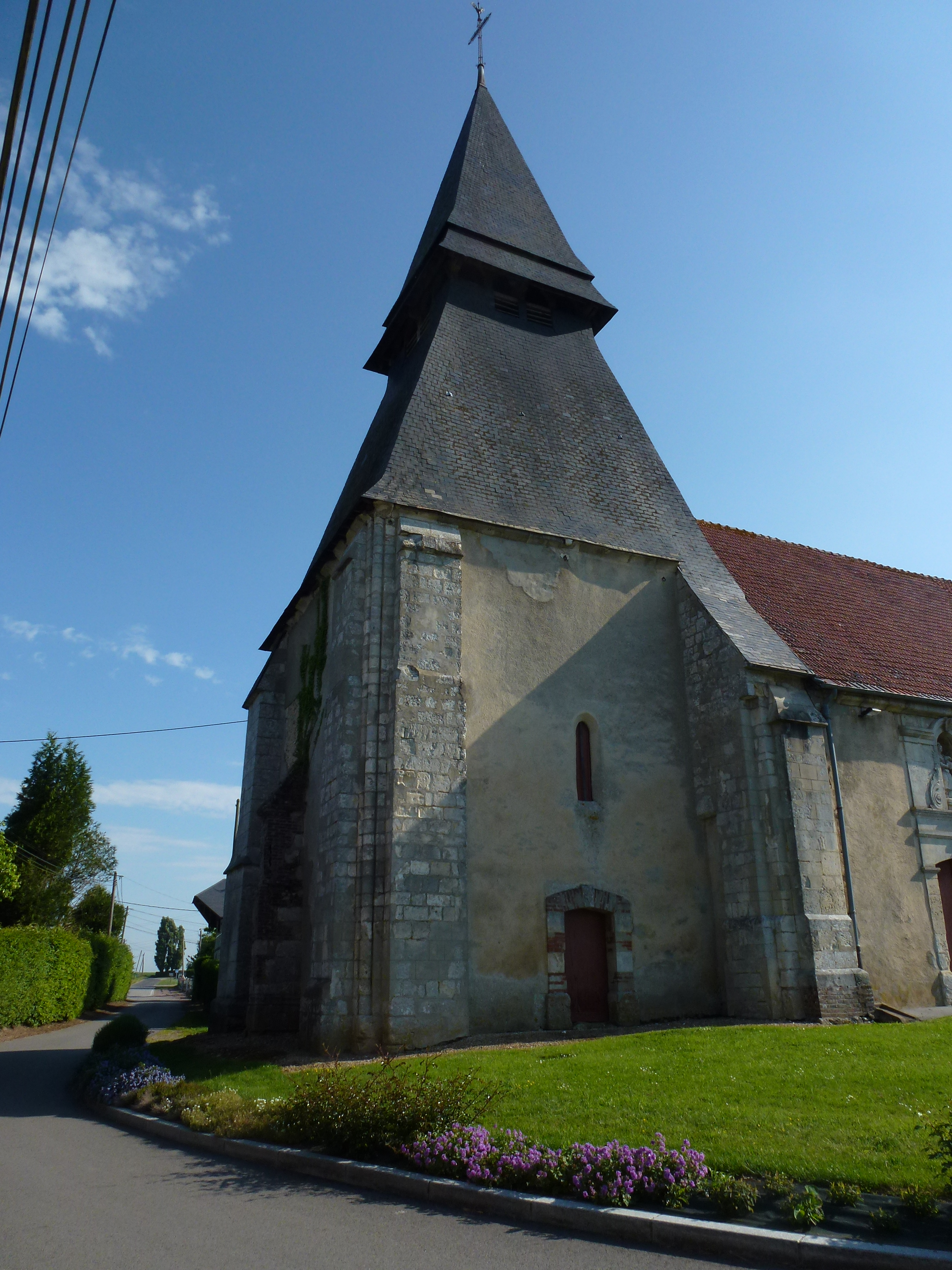 Combon (Eure, Fr) église Notre-Dame, la tour